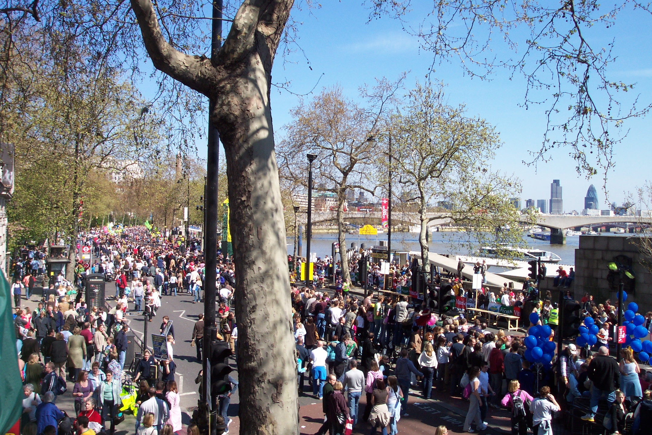 Crowds turn out on the Victoria Embankment to watch the London Marathon 2005.